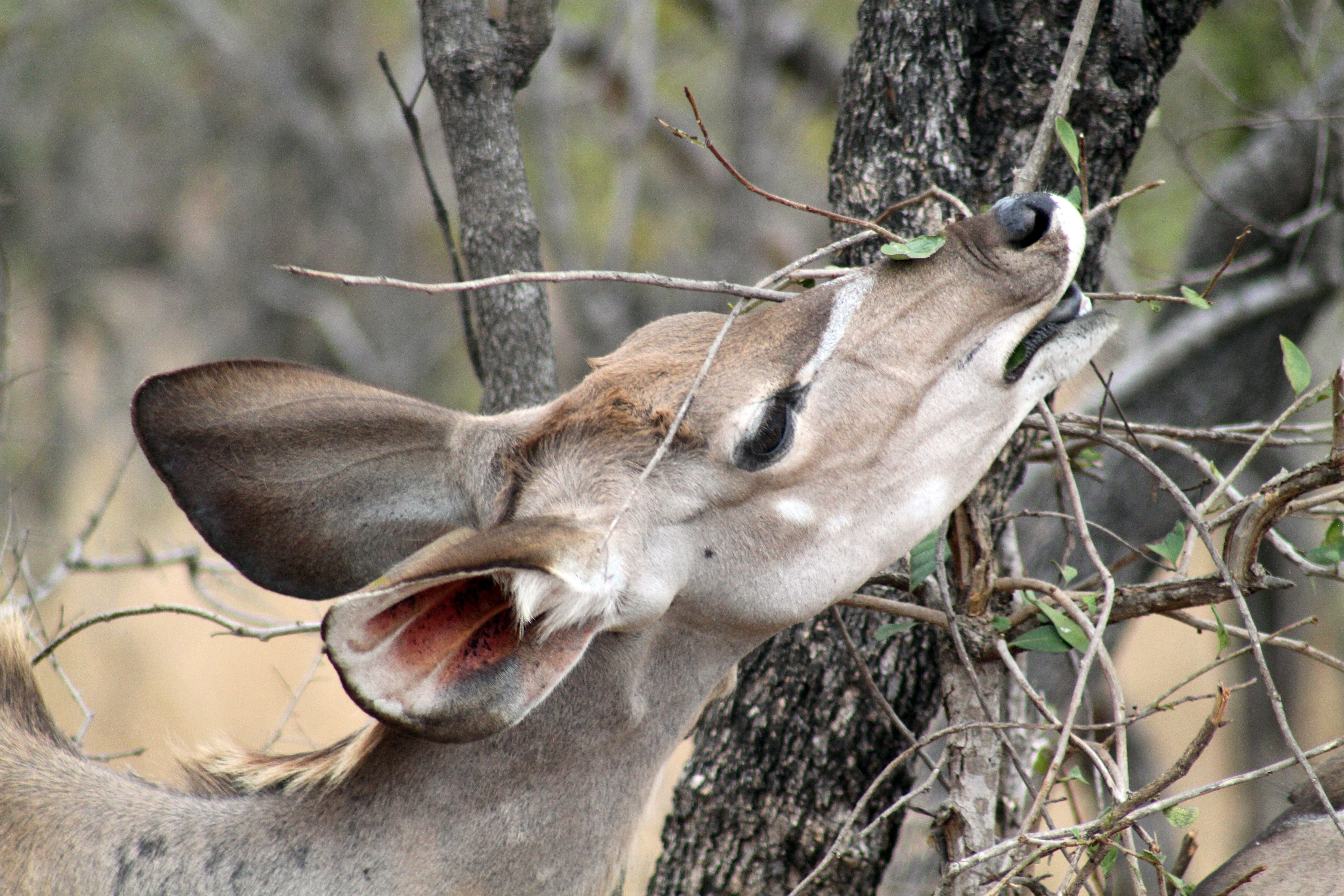 Kruger National Park, South Africa